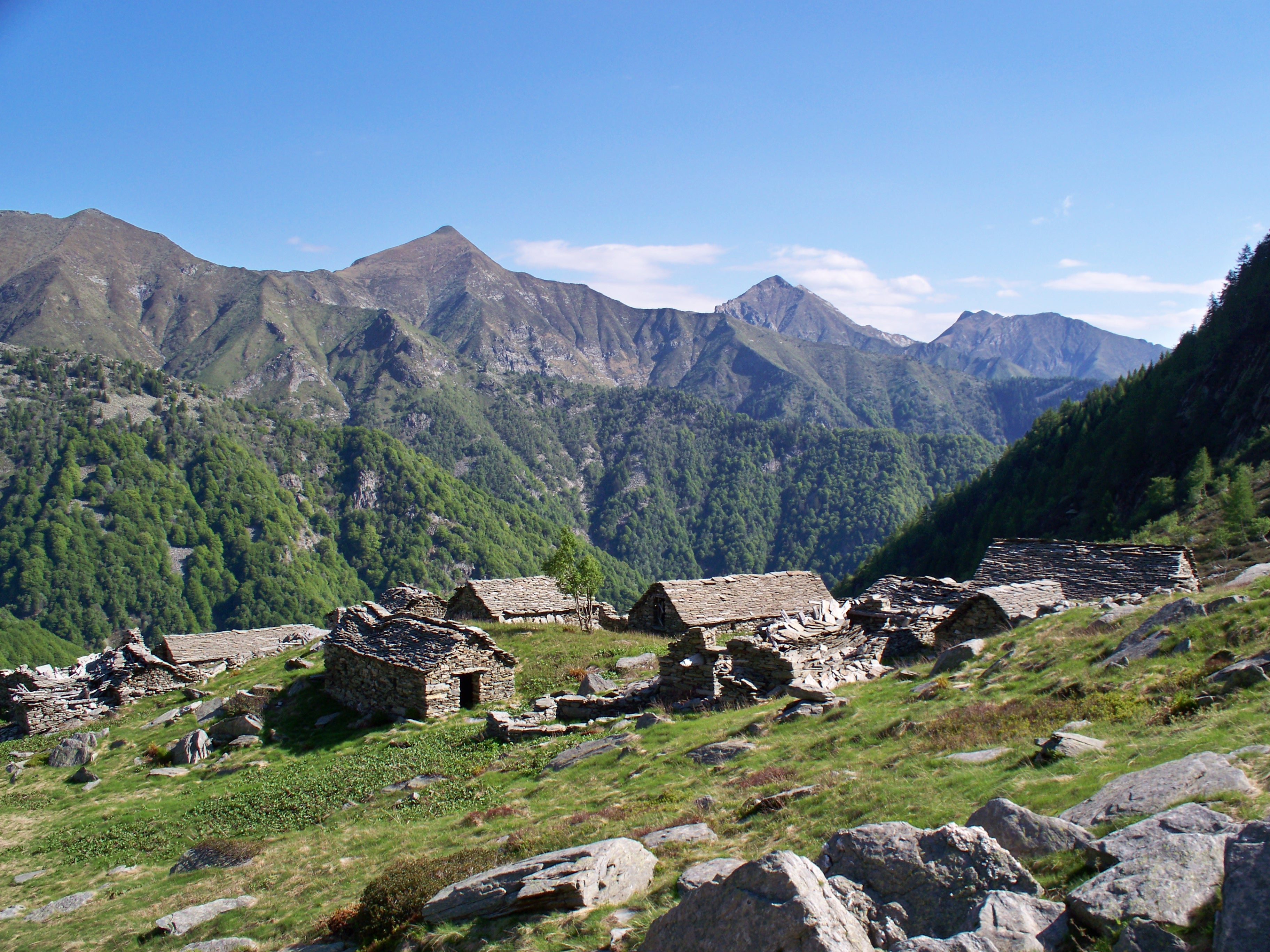 Abandoned farm houses of Alpe Quagiui in the Val Grande national Park Piemont/Italy